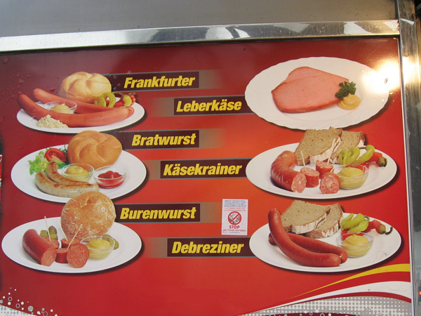 Examples for differing vocabulary in Austrian Standard German Here we see the names of some sausages that are popular in Austria. Mind: Wiener sausages are called Frankfurter in Austria.